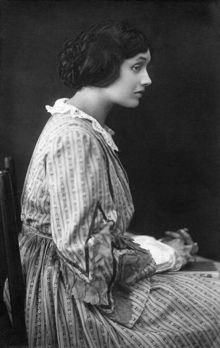 Portrait photograph of Katharine Cornell as Jo March in the London production of Little Women